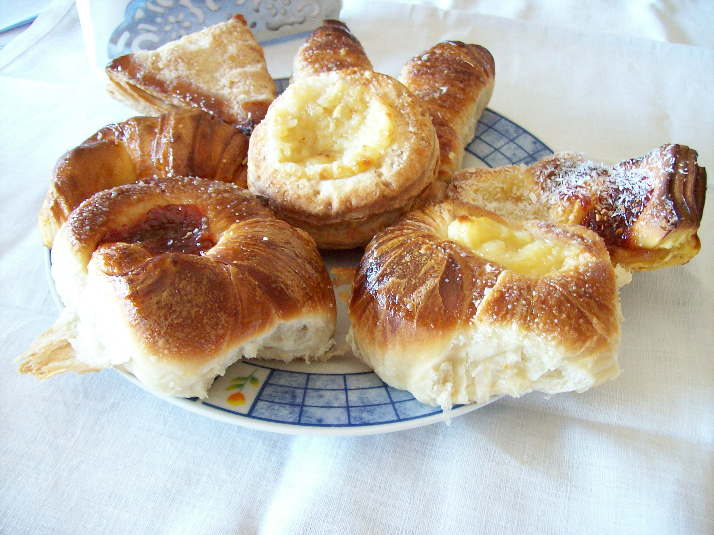 South American typical pastries called "Facturas", introduced by the German immigration to Argentina.